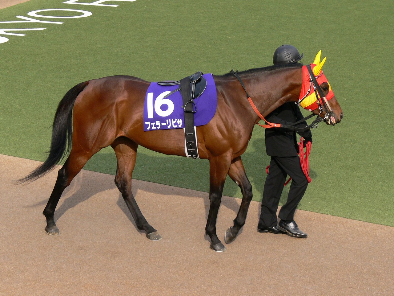 Japanese race horse "Ferrari Pisa" in Tokyo racecourse.